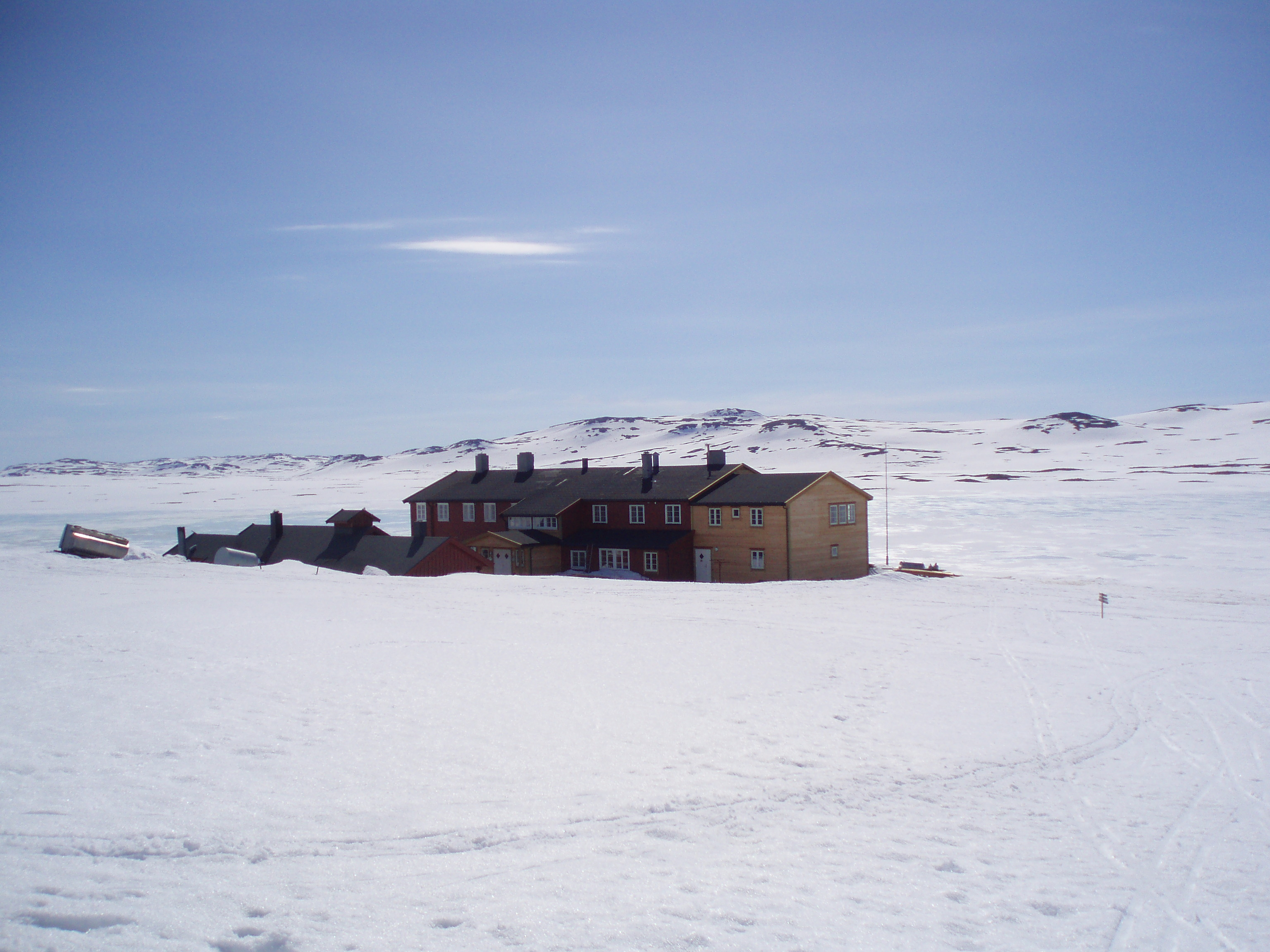 Rauhellern, a cottage located on Hardangervidda.